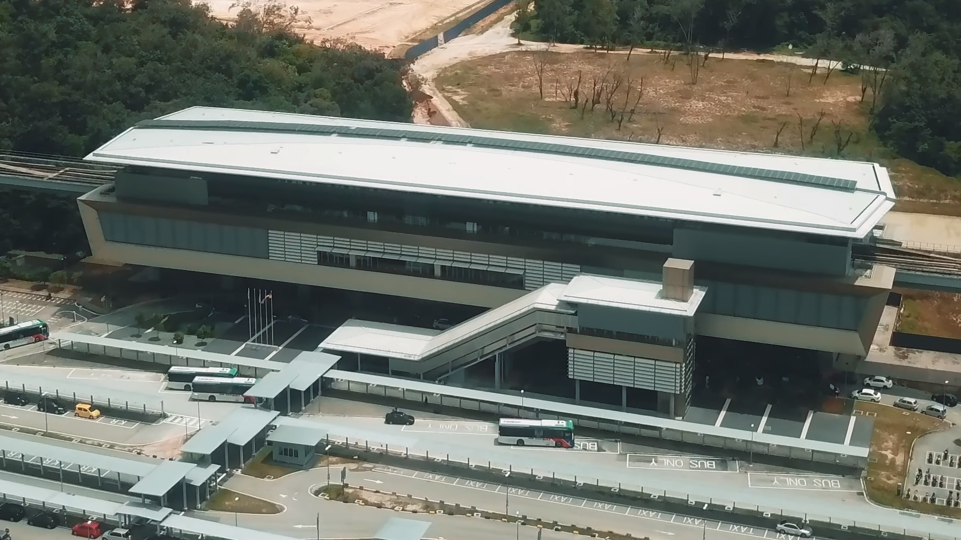 MRT KWASA CENTRAL STATION SELANGOR